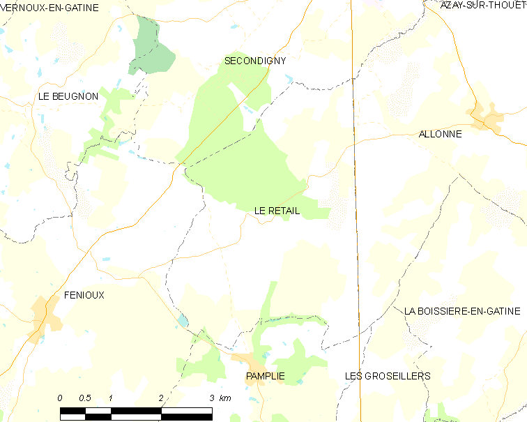 Map of French municipality Le Retail